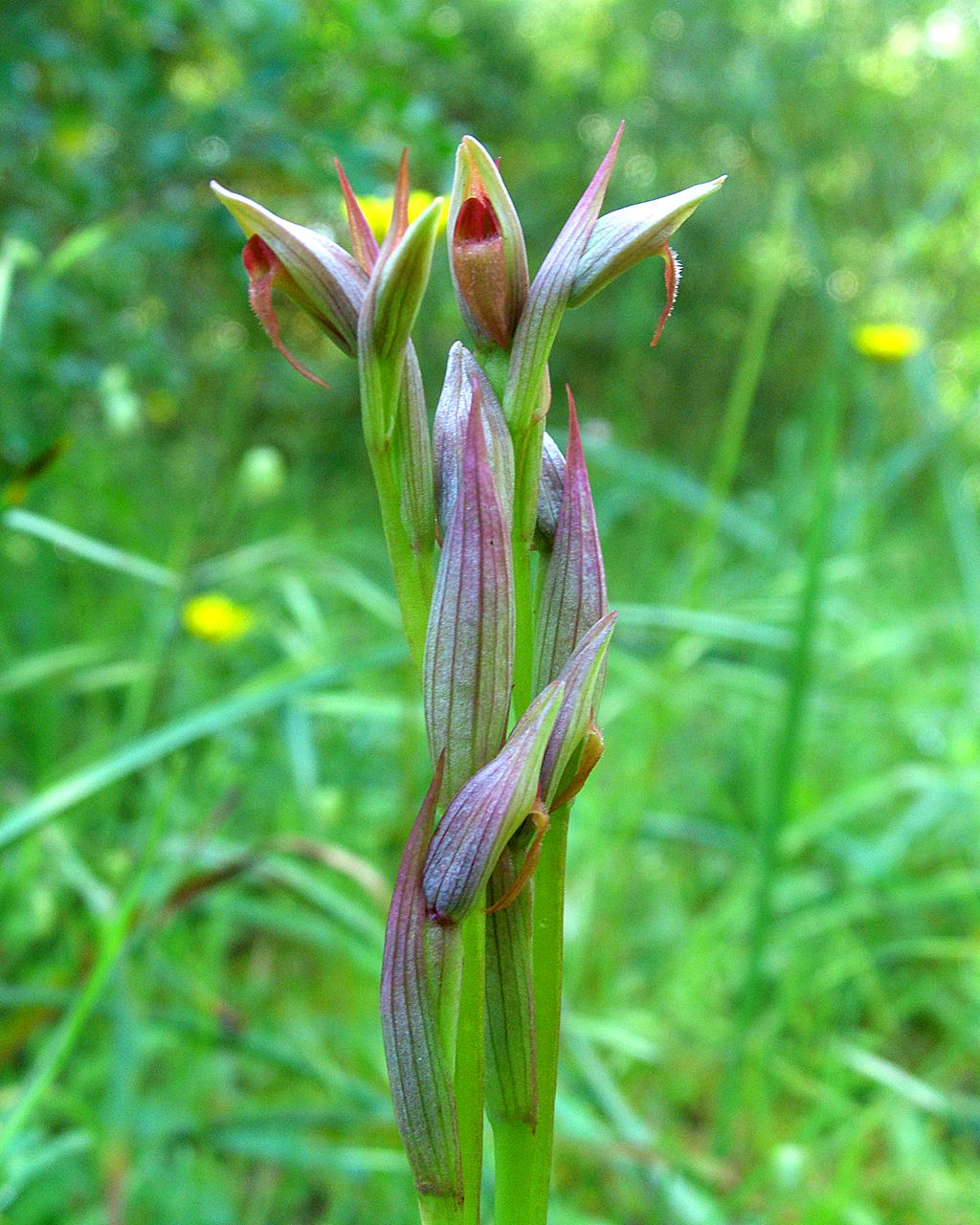 Serapias parviflora flowers